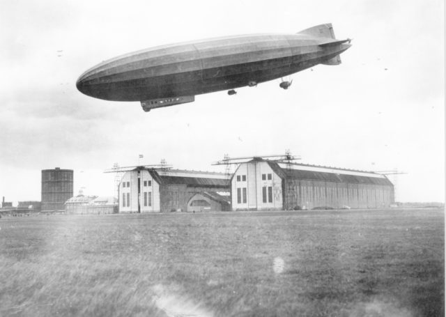 Caption: "Germany's First Air Liner Arriving in Berlin - The Bodensee, the great passenger airship built and owned by the Hamburg-American S.S.Line arriving at her hangars in Berlin on her maiden-trip from Freiderichahofen a distance of about 450 miles in six hours. She has accommodations for 50 passengers and is furnished luxuriously throughout. The directors of the Hamburg-American line hope to inaugurate an air line between Berlin and New York within two years, the flying time to be 36 hours."